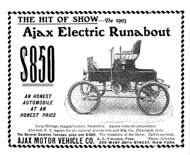 A newspaper advertisement from the Ajax Motor Vehicle Company touting the 1903 Ajax Electric Runabout as the hit of that year's New York International Auto Show